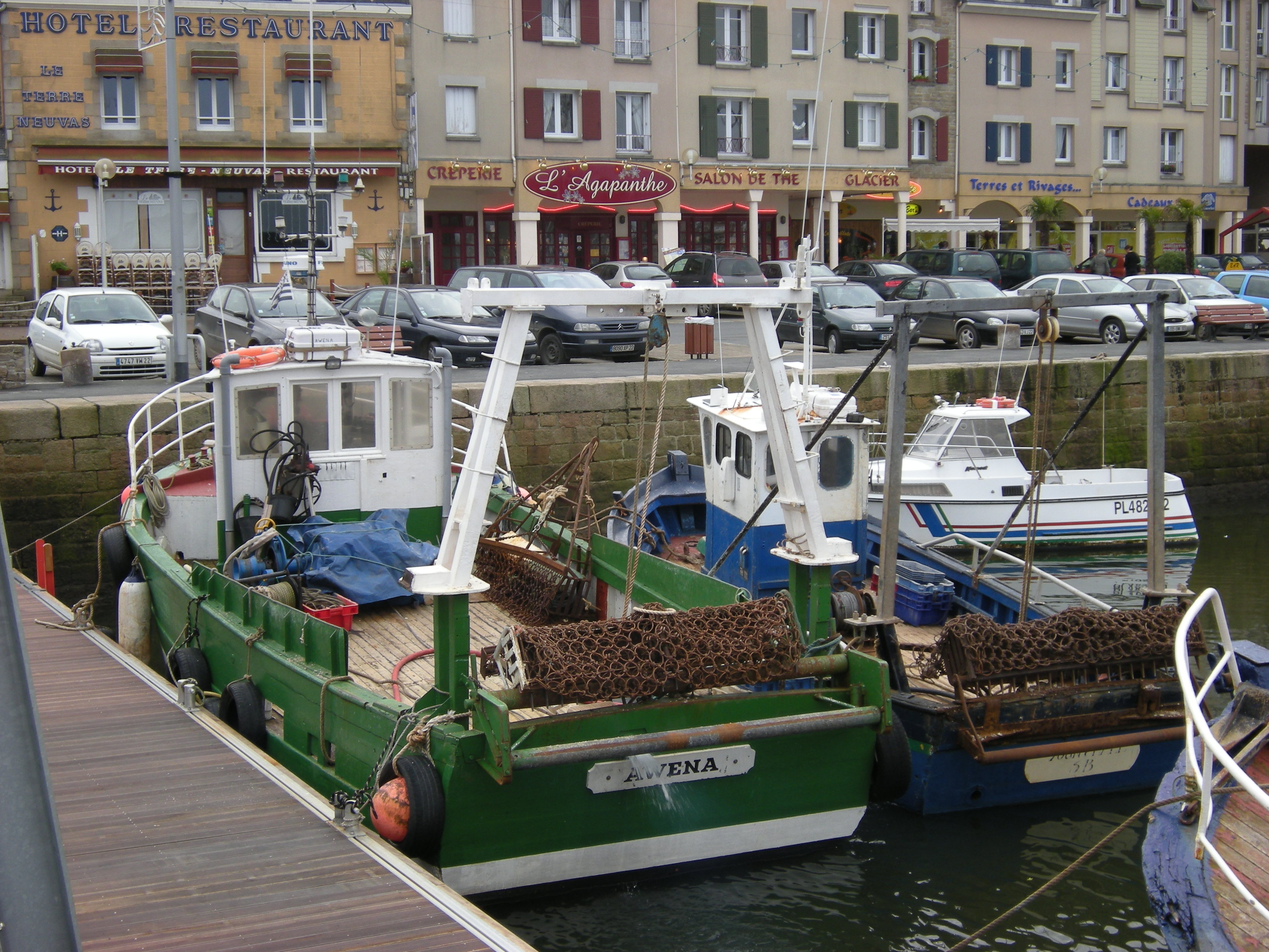 Fishing ships for Coquille Saint-Jacques in Paimpol